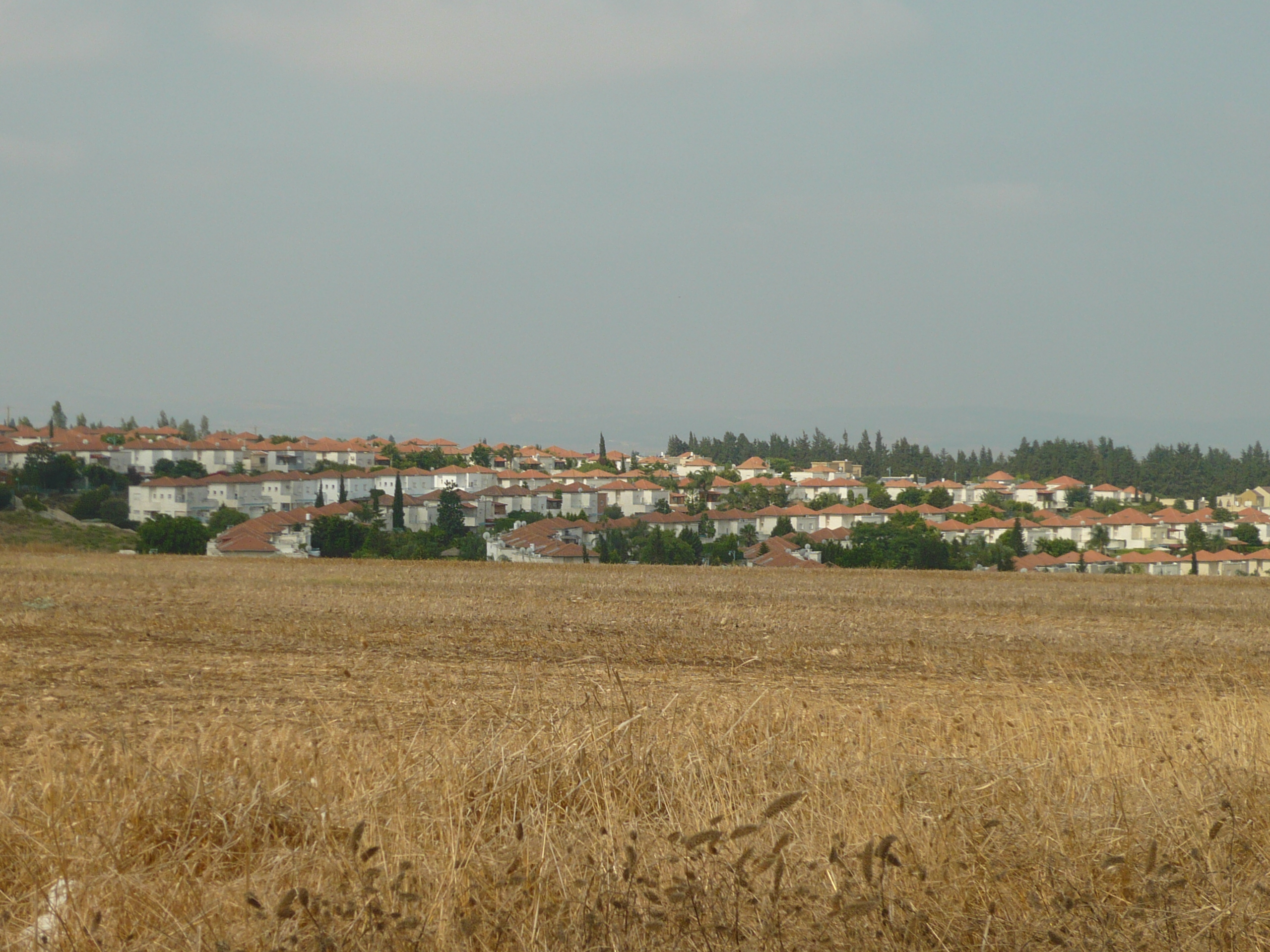 Ahuzat Barak אחוזת ברק, מבט ממצודת מחנה ישראל הנטושה ליד קיבוץ דברת